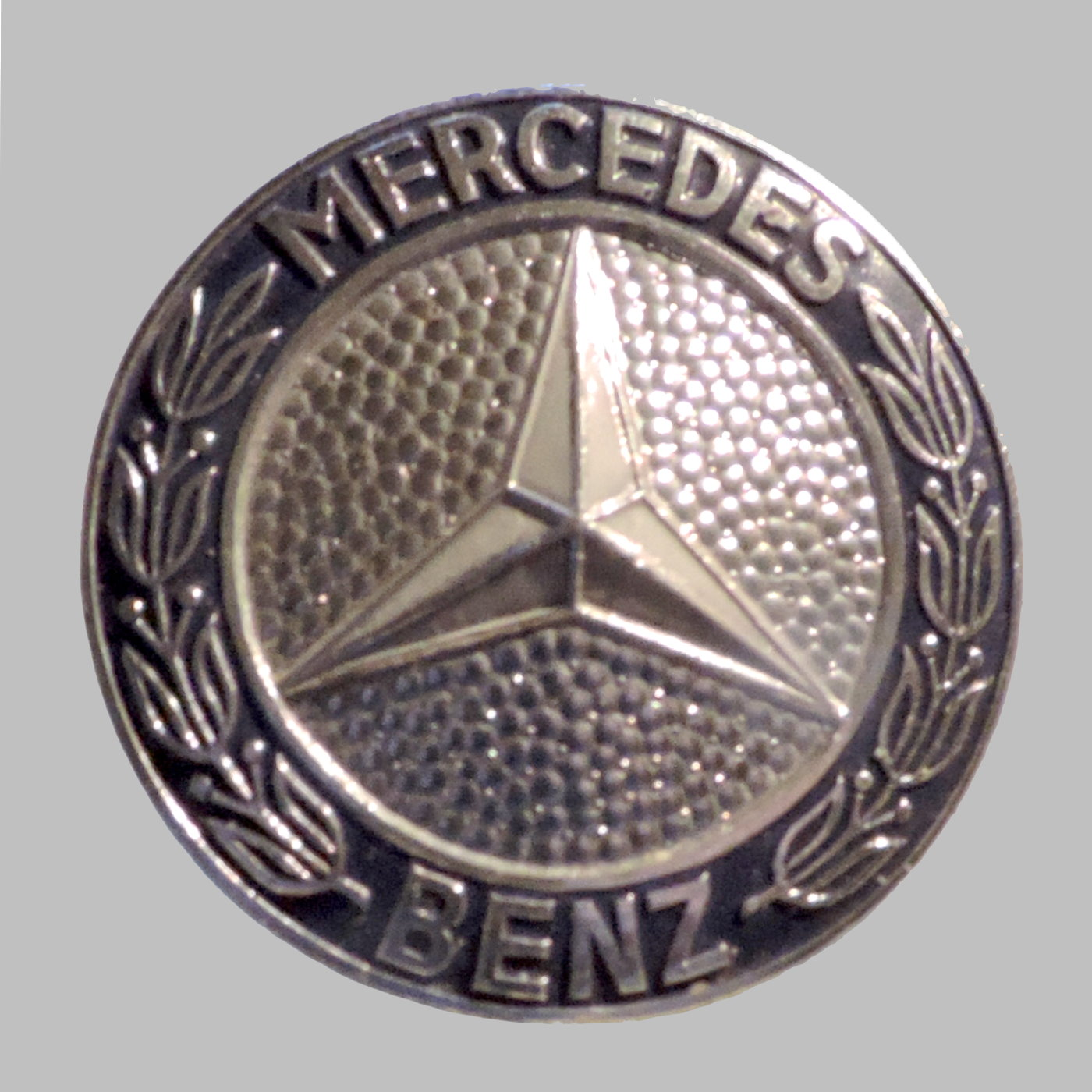 Mercedes-Benz Typ W116 - 46 mm